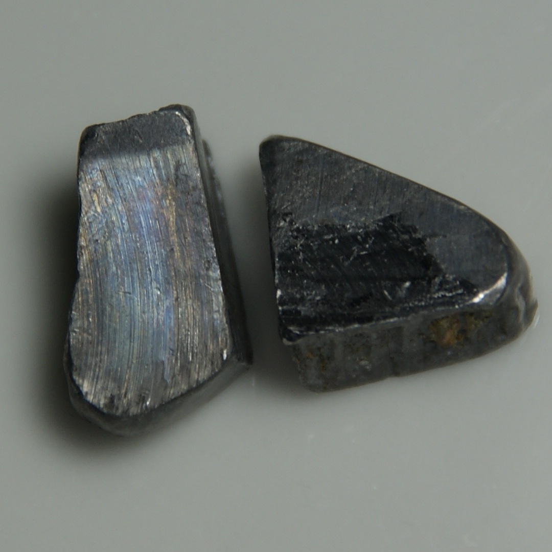 Lead is known since ancient times and was widely used then. This often caused big sanitary problems, because its compounds are quite toxic. 208Pb is the last stable isotope in the periodic table and the end of the thorium decay chain. Therefore lead is quite abundant for an element with such a high number. Lead is a grey, very heavy and soft metal with a low melting point. Amongst others, it is used for weights and for radiation protection. Lead forms in air quickly a protecting oxide layer, which makes it dark.